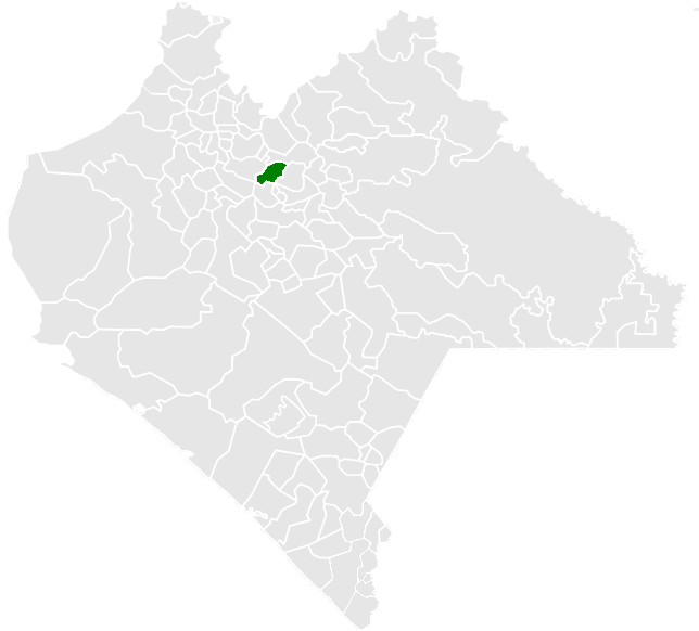 Map of the Municipalty of El Bosque in the State of Chiapas, México.